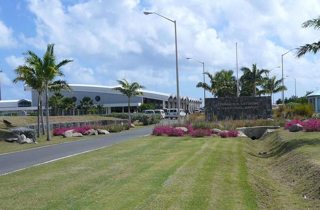 Photograph of Terrance B. Lettsome International Airport, Beef Island, British Virgin Islands